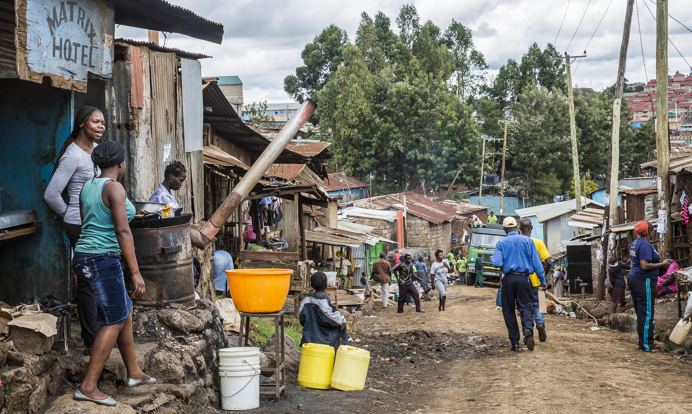 Kibera slum Nairobi Kenya, garbage truck